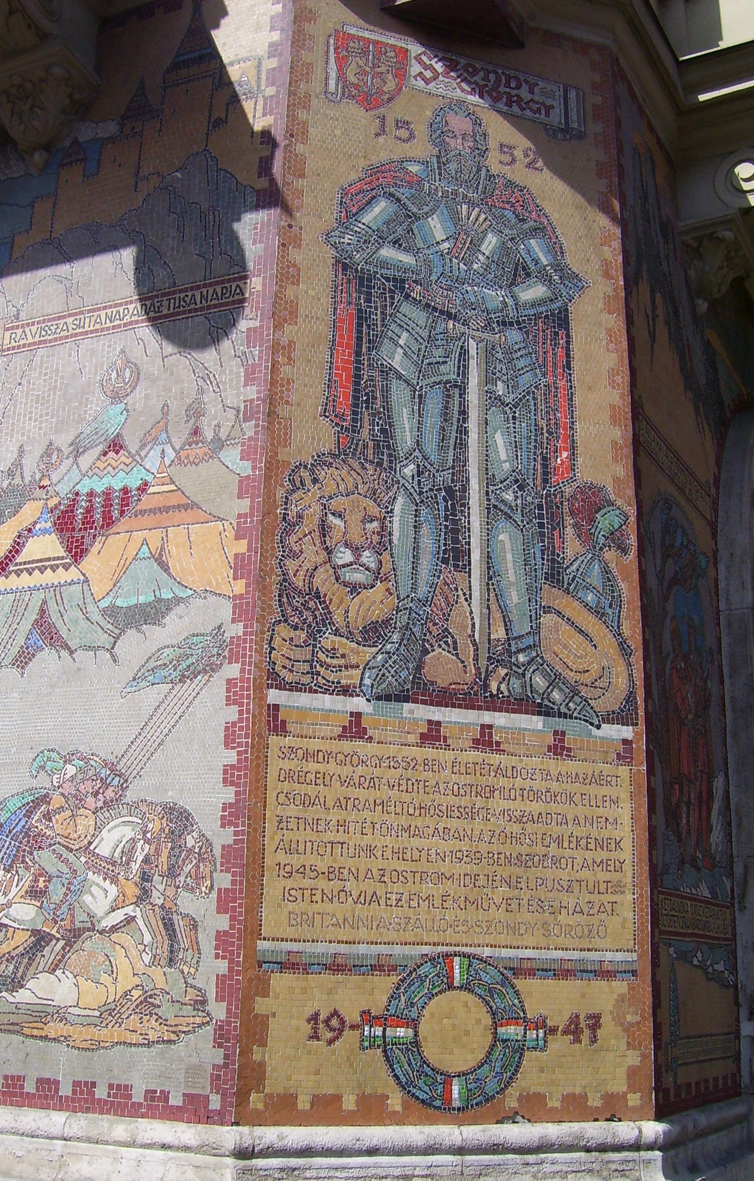 Corner of Teréz körút and Szondi utca in Budapest, Hungary. Mosaic of George Szondy restored in 1947. Own photo (taken: May 2008).